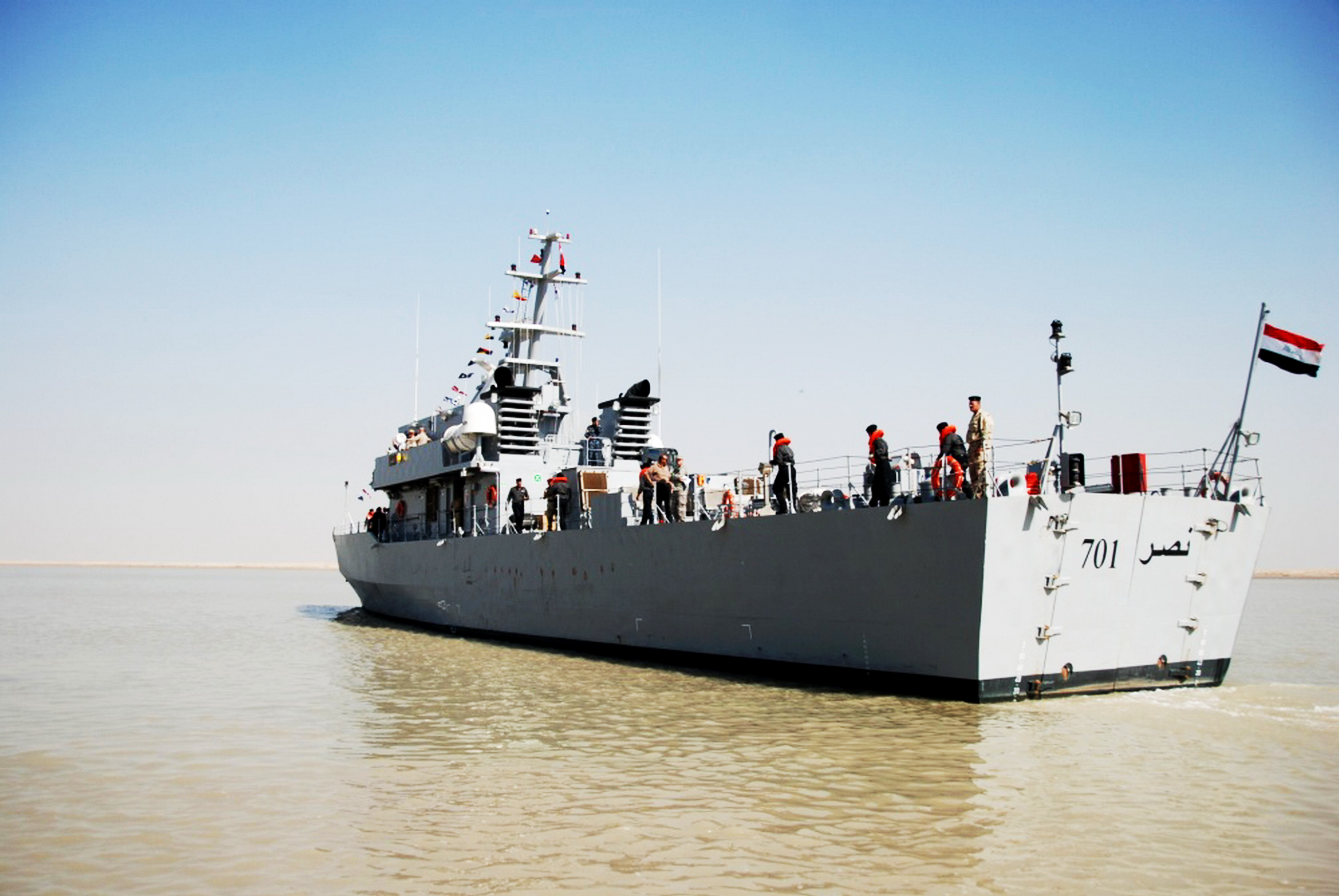 The patrol ship Nasir arrives in Umm Qasar